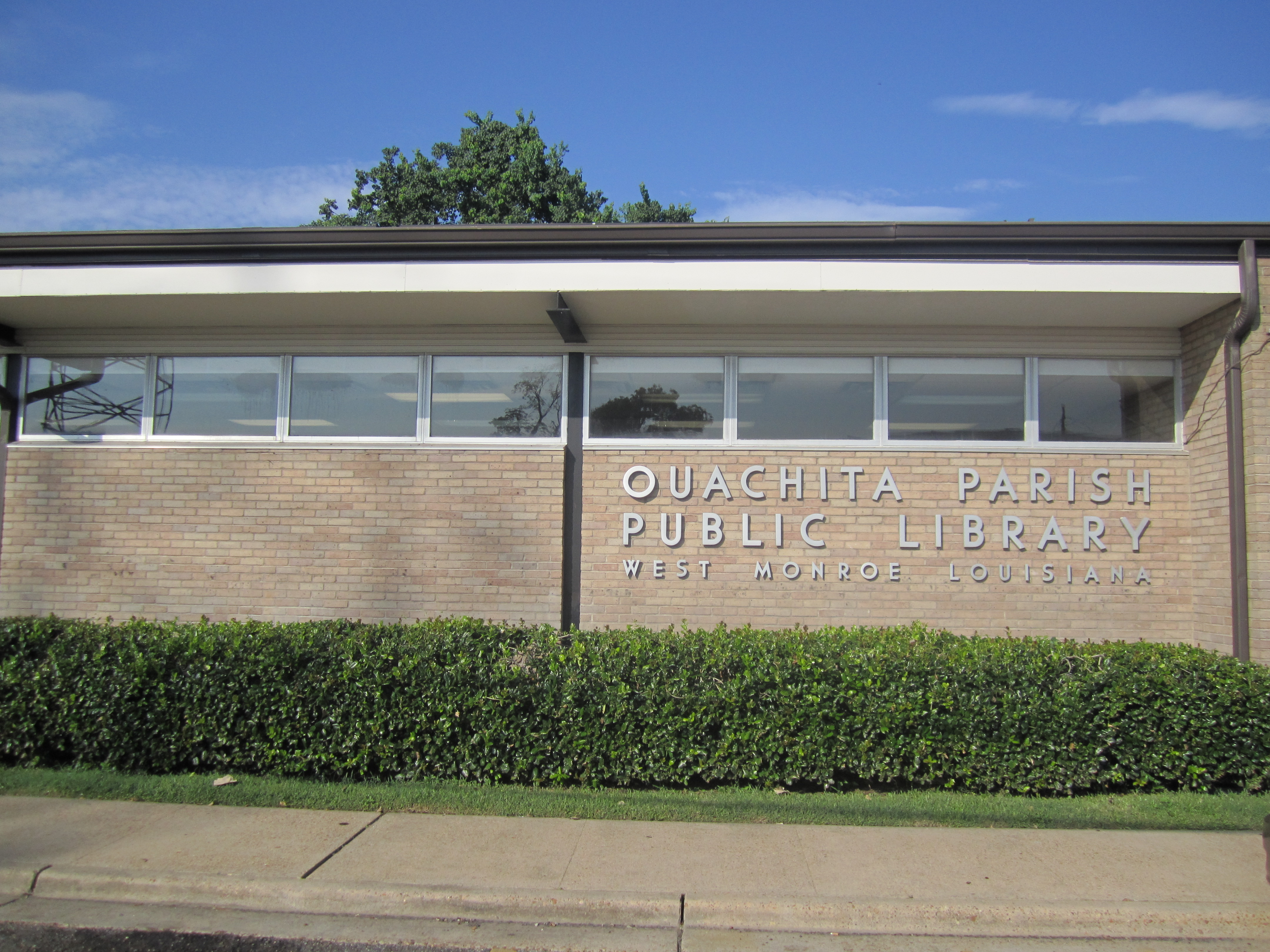 Ouachita Parish Public Library. I took photo with Canon camera in West Monroe, LA.